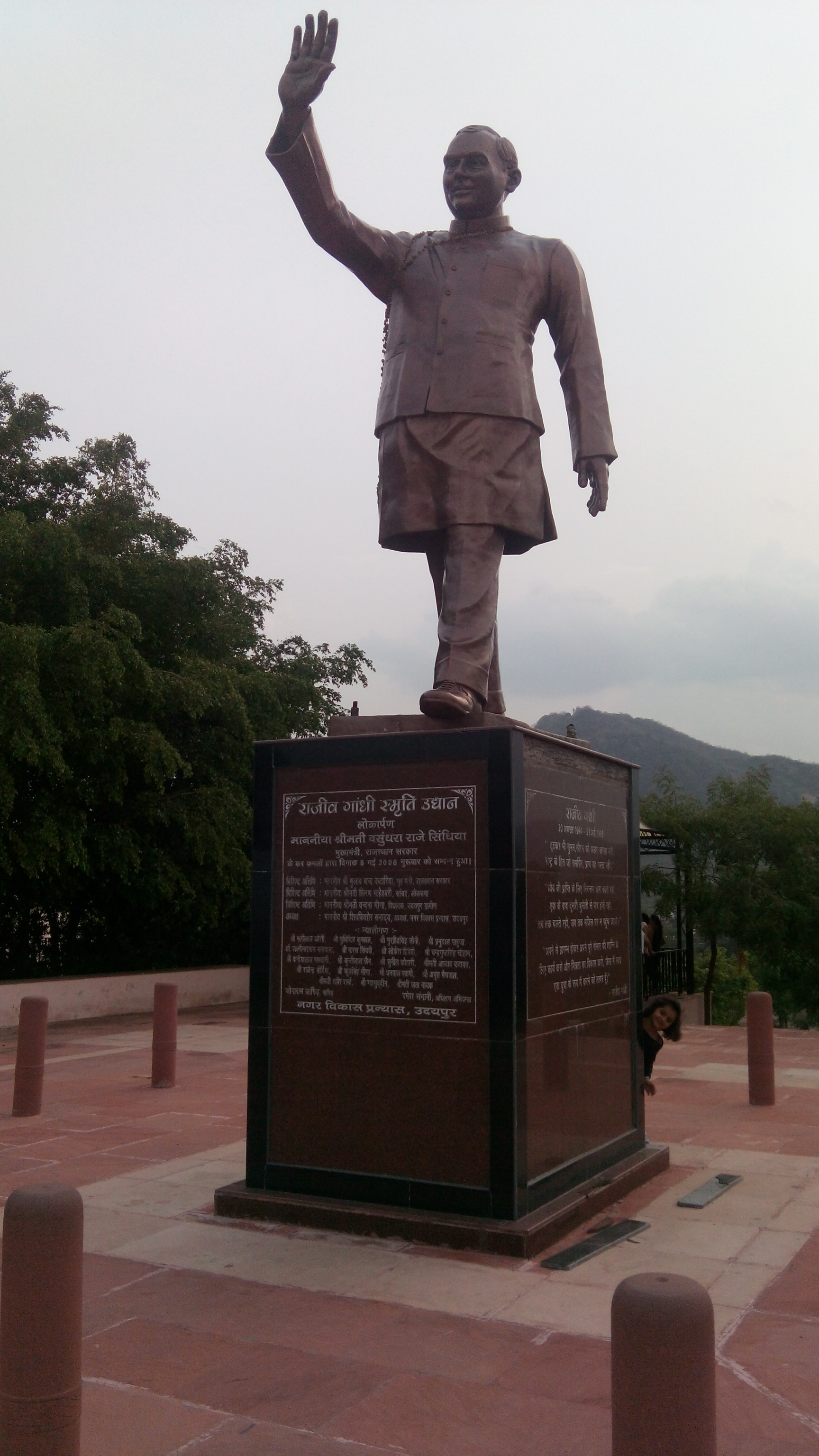 Statue of Indian Ex-Politician Rajiv Gandhi, situated in the Rajiv Gandhi Garden, Udaipur.